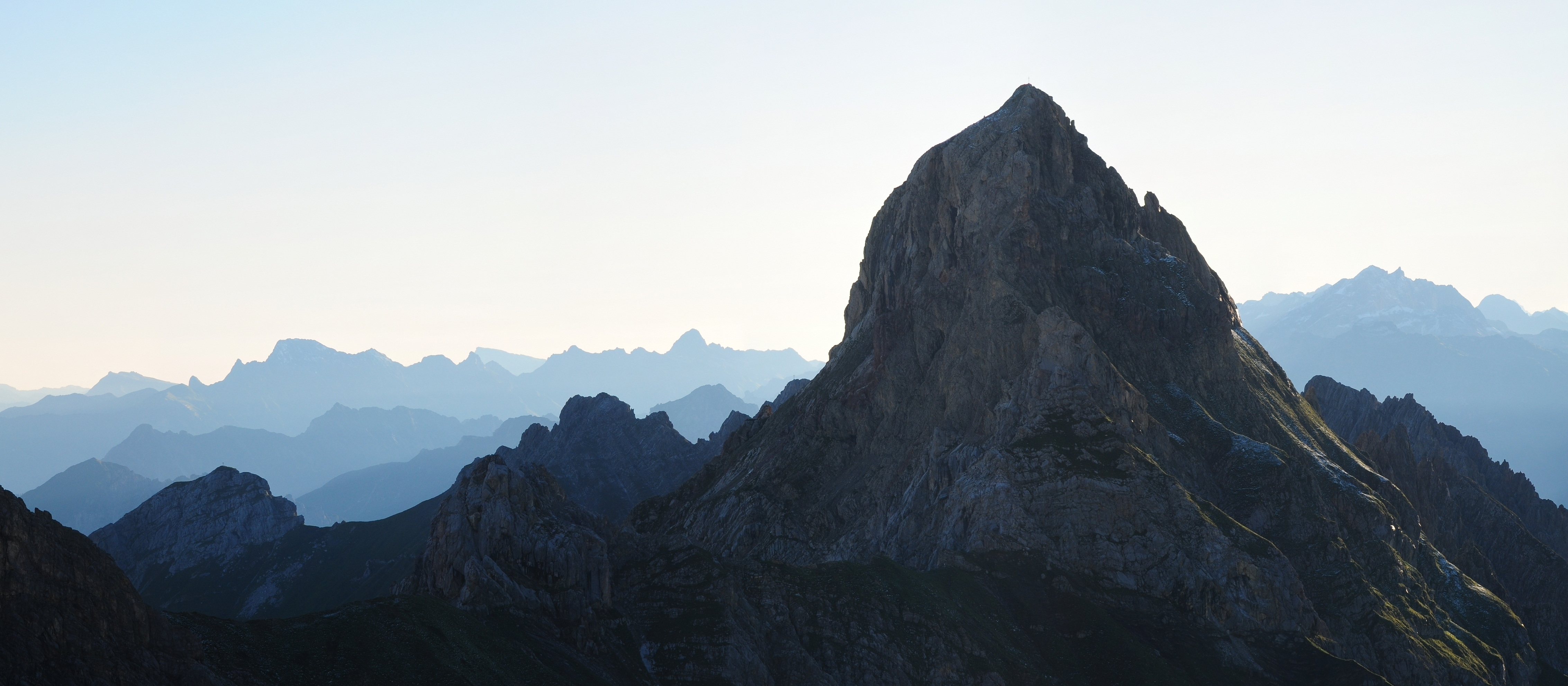 The Zimba, seen from Mt. Saulakopf (2,517m) in Austria.